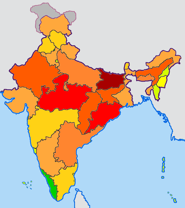 Overview of the Human Development Indices of States and Union Territories of the Republic of India in 2005.